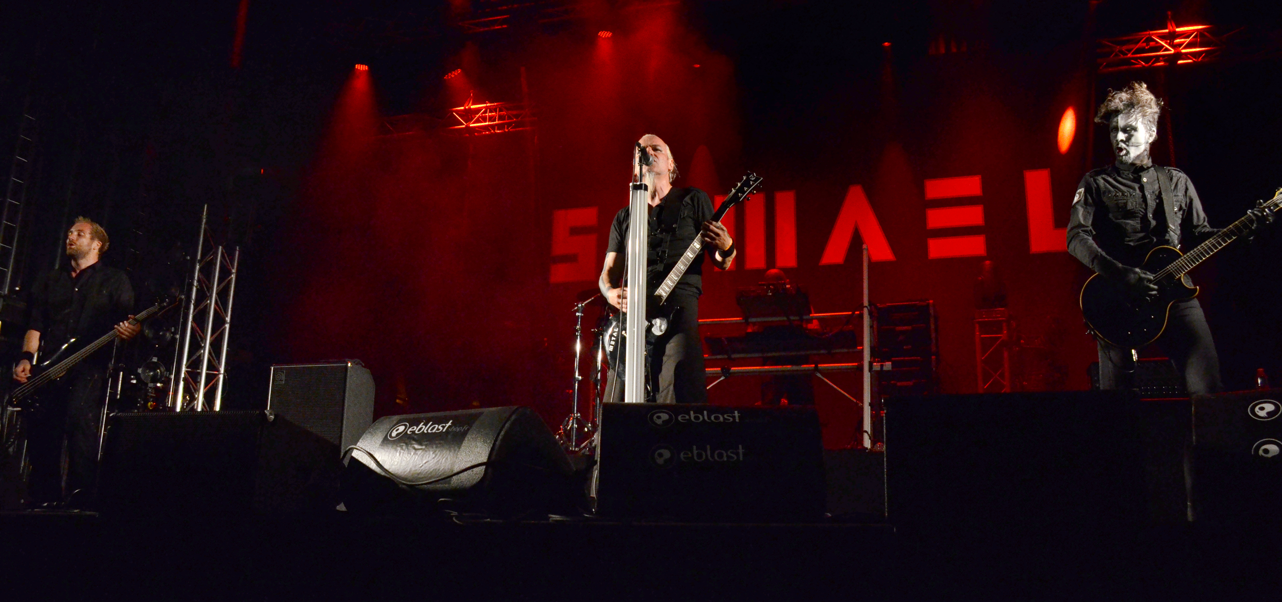 Samael performing at the Fall of Summer festival, in Torcy, the 2d of September 2016.